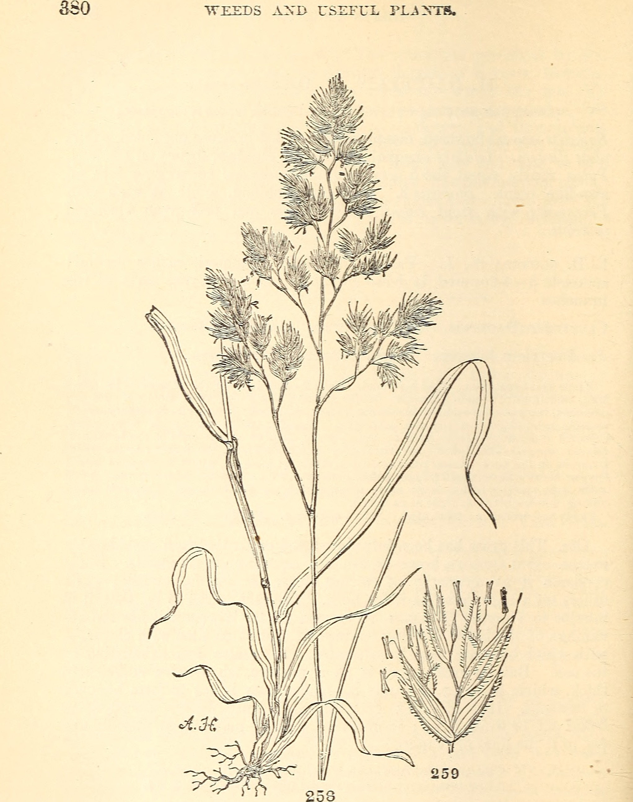 Title: American weeds and useful plants: being a second and illustrated edition of Agricultural botany .. Year: 1879 (1870s) Authors: Darlington, William, 1782-1863; Thurber, George, 1821-1890 Subjects: Botany, Economic; Botany Publisher: New-York, Orange Judd company Text Appearing Before Image: ' Text Appearing After Image: Fig. 25S. Orchard Grass (Ifeictylis glomerata). 259. A spikelet.